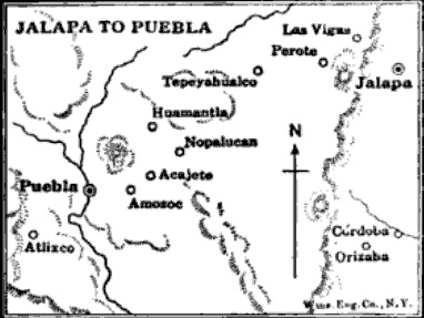 JalapaAction